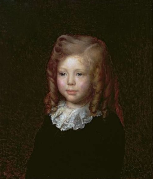 Winston Churchill 4 years old